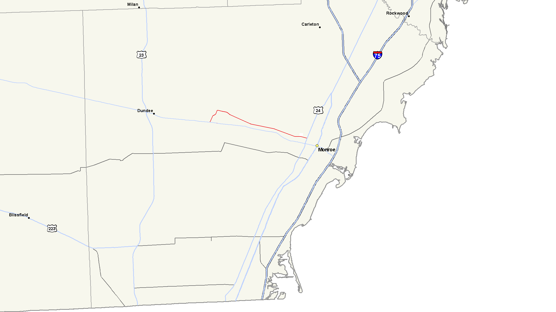 Map of M-130